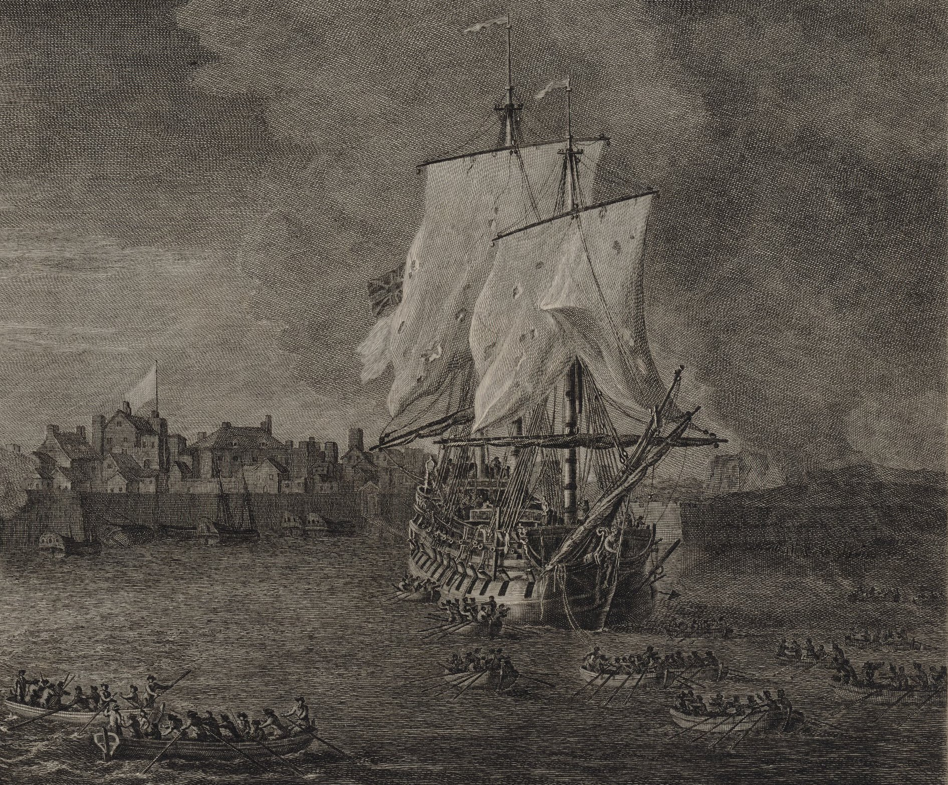 Engraving made ​​after a painting by Richard Paton. Capture of the French ship Bienfaisant (64 guns), during the siege of Louisbourg in 1758.